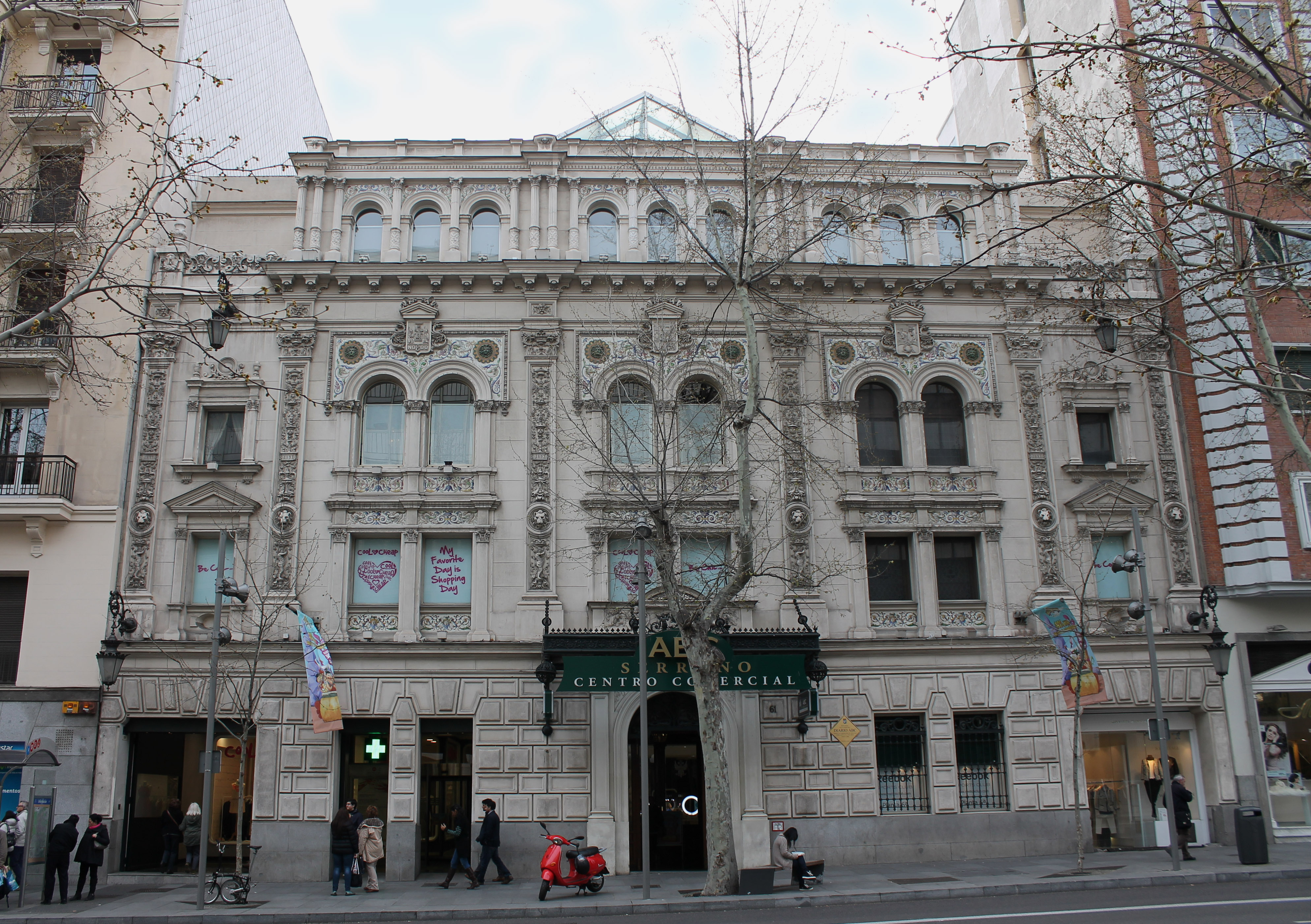 East façade (1898) of ABC Serrano building in Madrid (Spain).